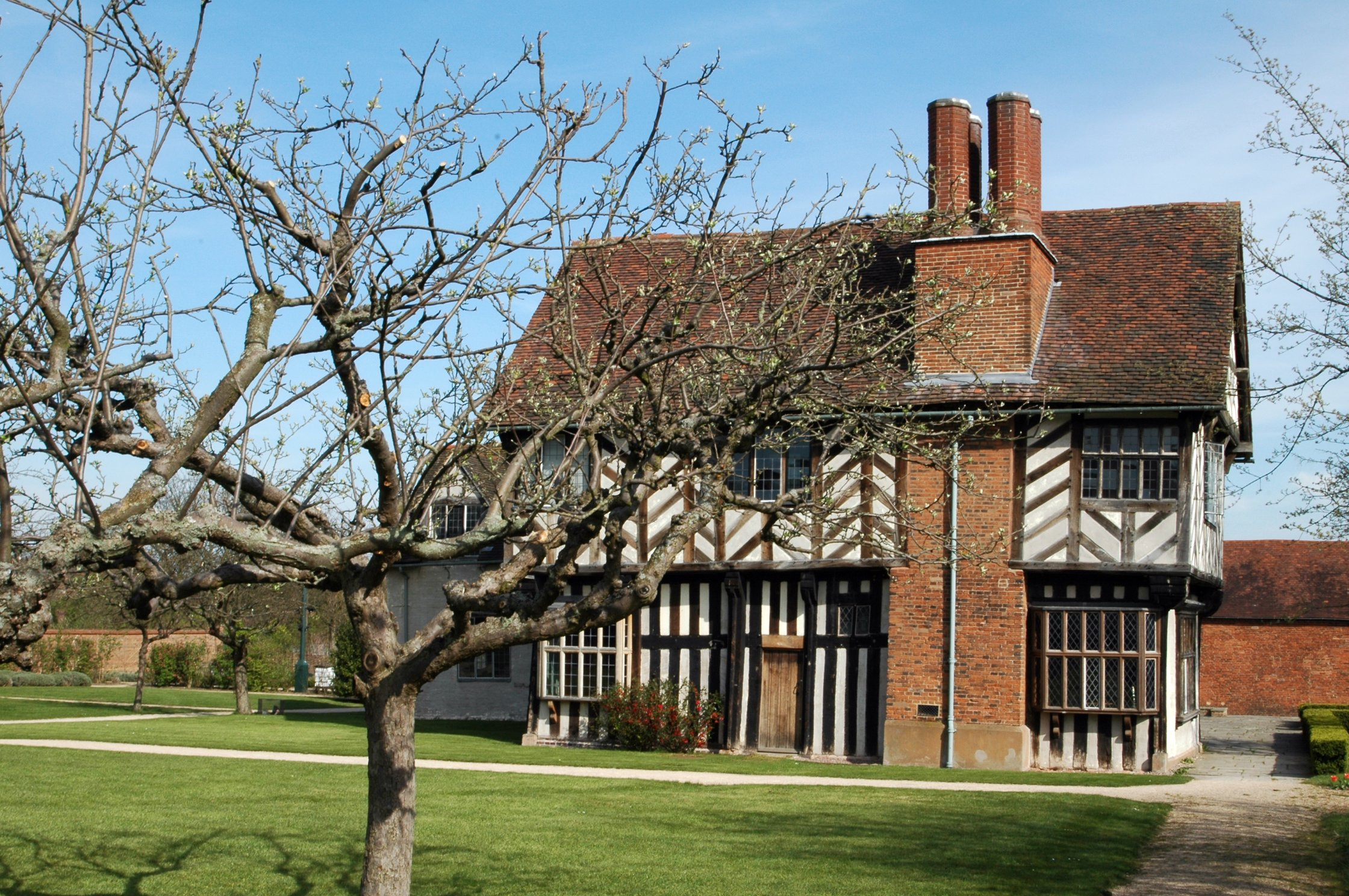 Blakesley Hall in Yardley, Birmingham from the side in the gardens.